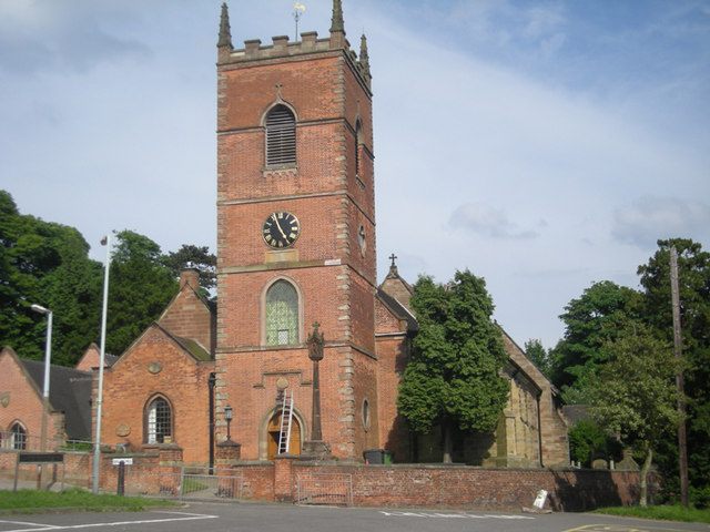 St Bartholomew's parish church, Penn, West Midlands (formerly Staffordshire), seen from the west